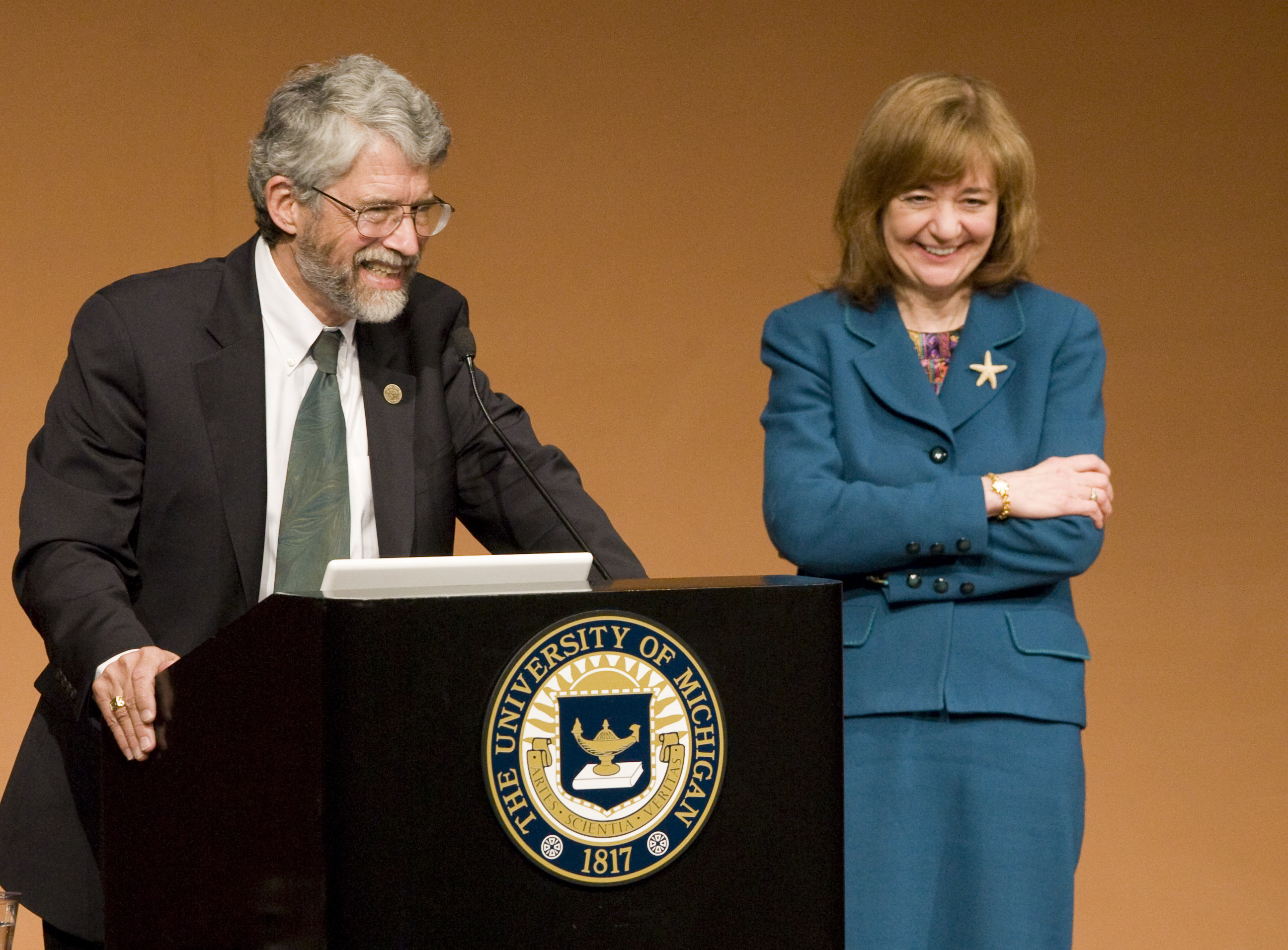 John Holdren and Rosina Bierbaum at the Ninth Annual Peter M. Wege Lecture